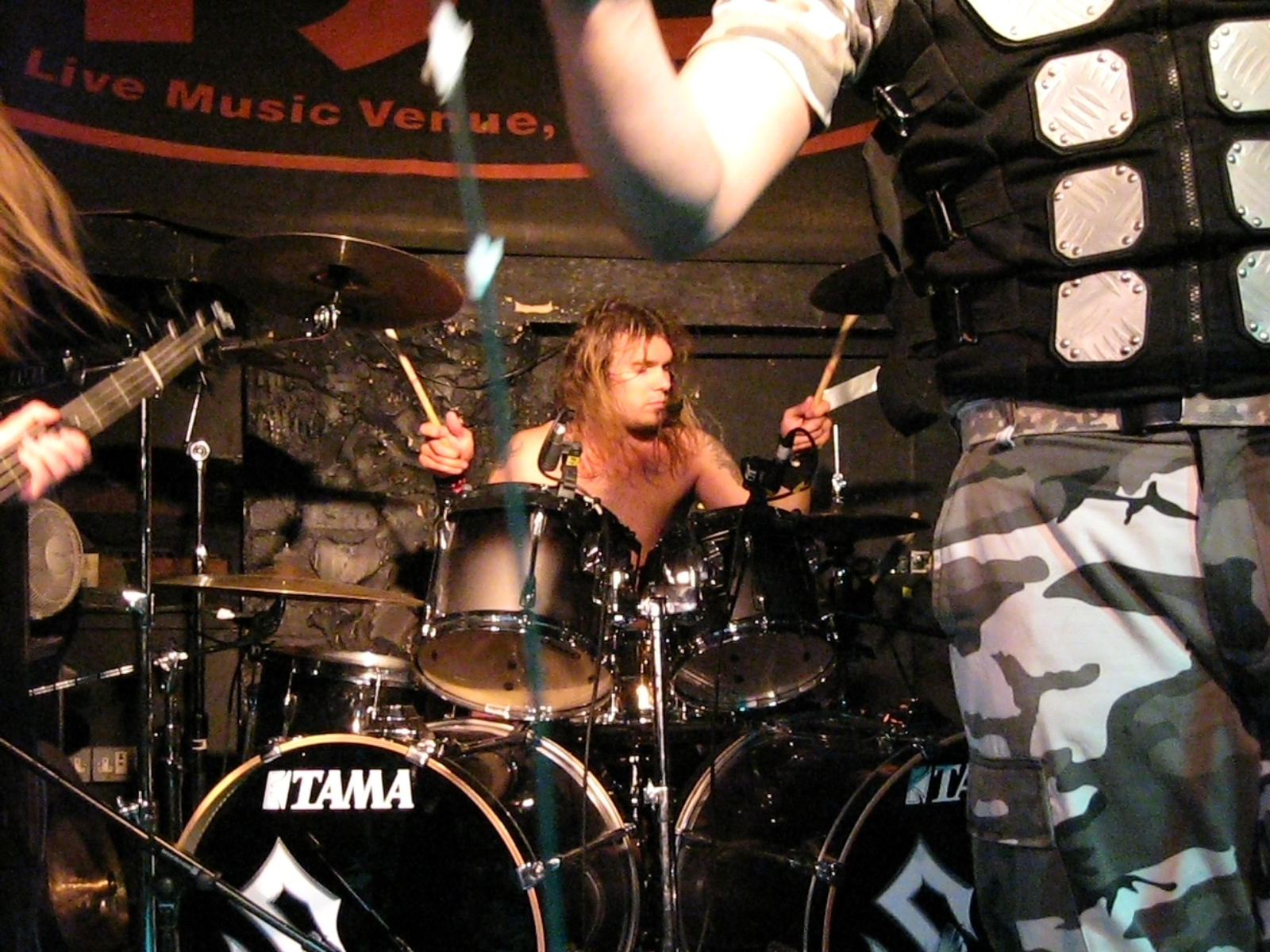 Daniel Mullback of Sabaton, May 18, 2007